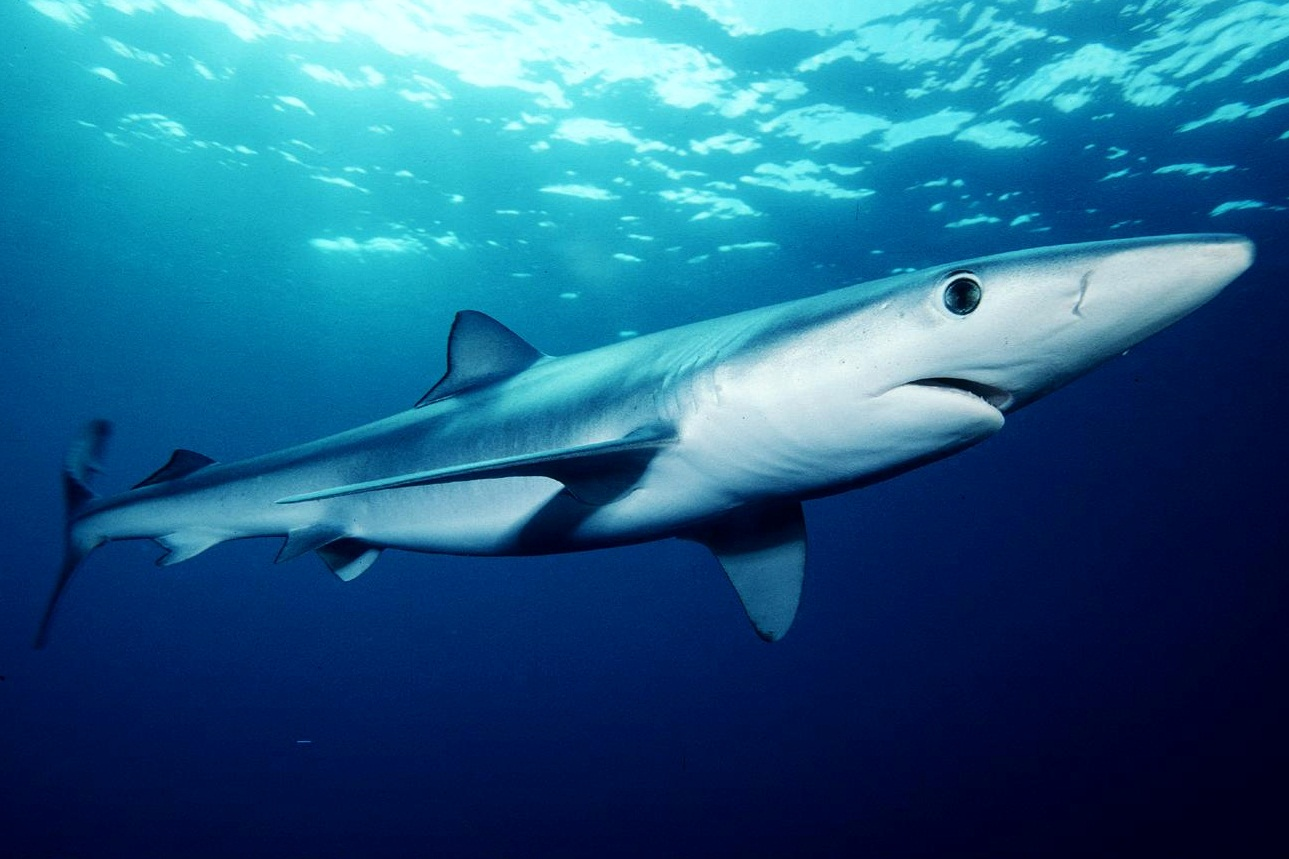 Blue shark (Prionace glauca) off southern California